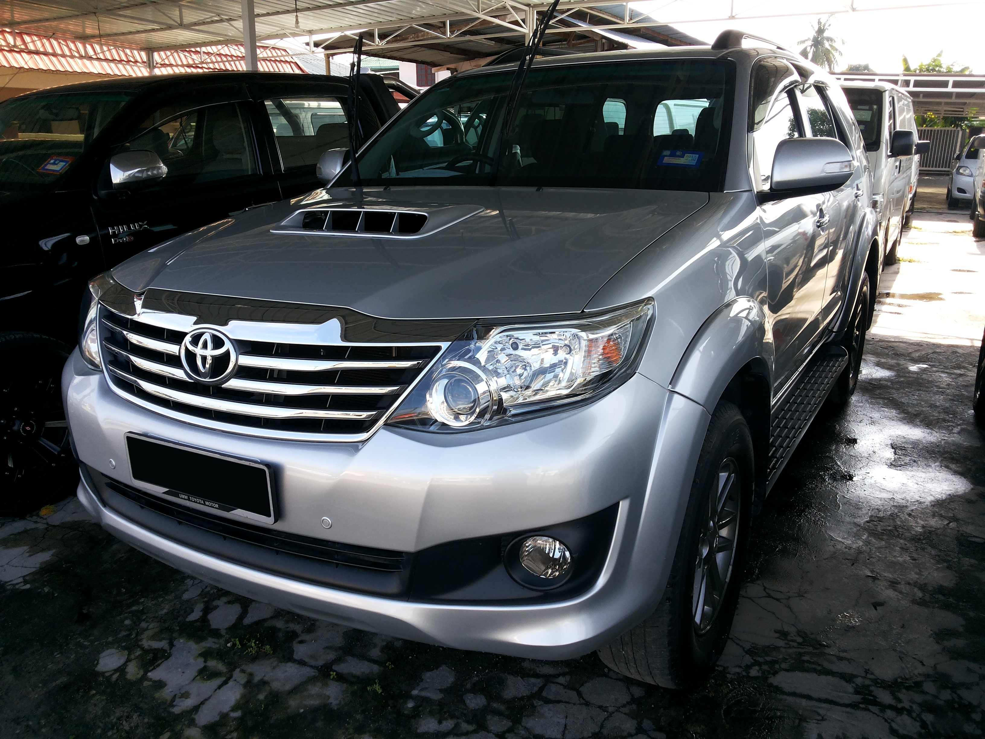 2.5G and 2.7V variants are available for Malaysian markets. The latest facelift of this generation Fortuner. Now black interior option and TRD Bodykit is available for both models. Both models gets a new Toyota OEM Head Unit with FM, CD, USB, AUX and Bluetooth, 17.5 inch new design alloy wheels and a Camry-based steering wheel. 2.7V would gain a wooden steering wheel upgrade in this facelift.